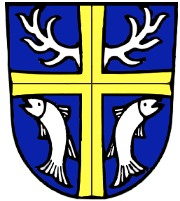 Coat of Arms of Röthlein